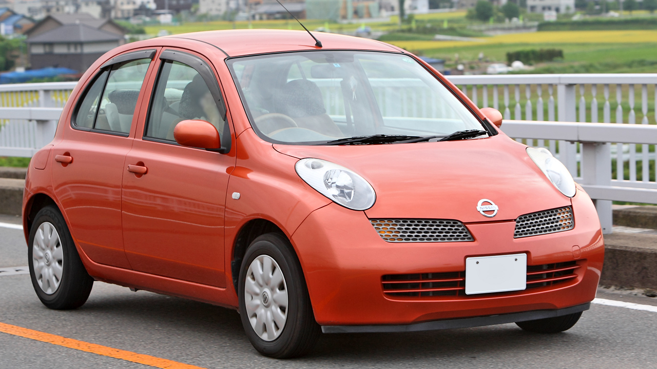 Nissan March K12